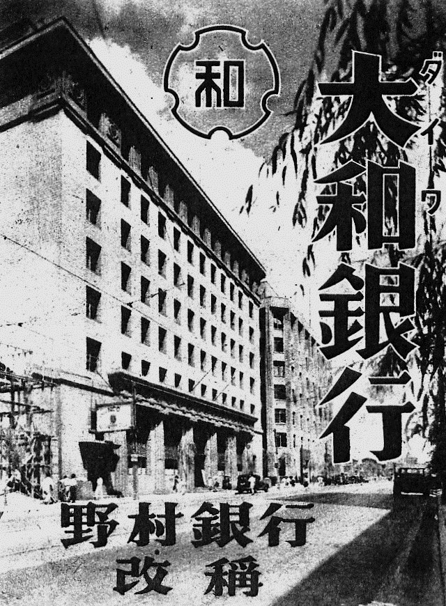 Advertisement of Daiwa Bank in 1948